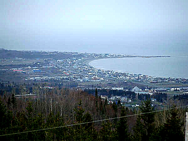 View of the town of Sainte-Anne-des-Monts, Quebec (Canada).